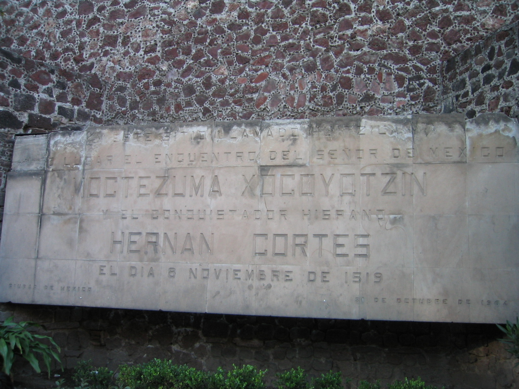 Place of encounter of Mocetezuma Xocoyotzin and the Spanish Conquistador Hernán Cortés on the 8 day of November 1519.